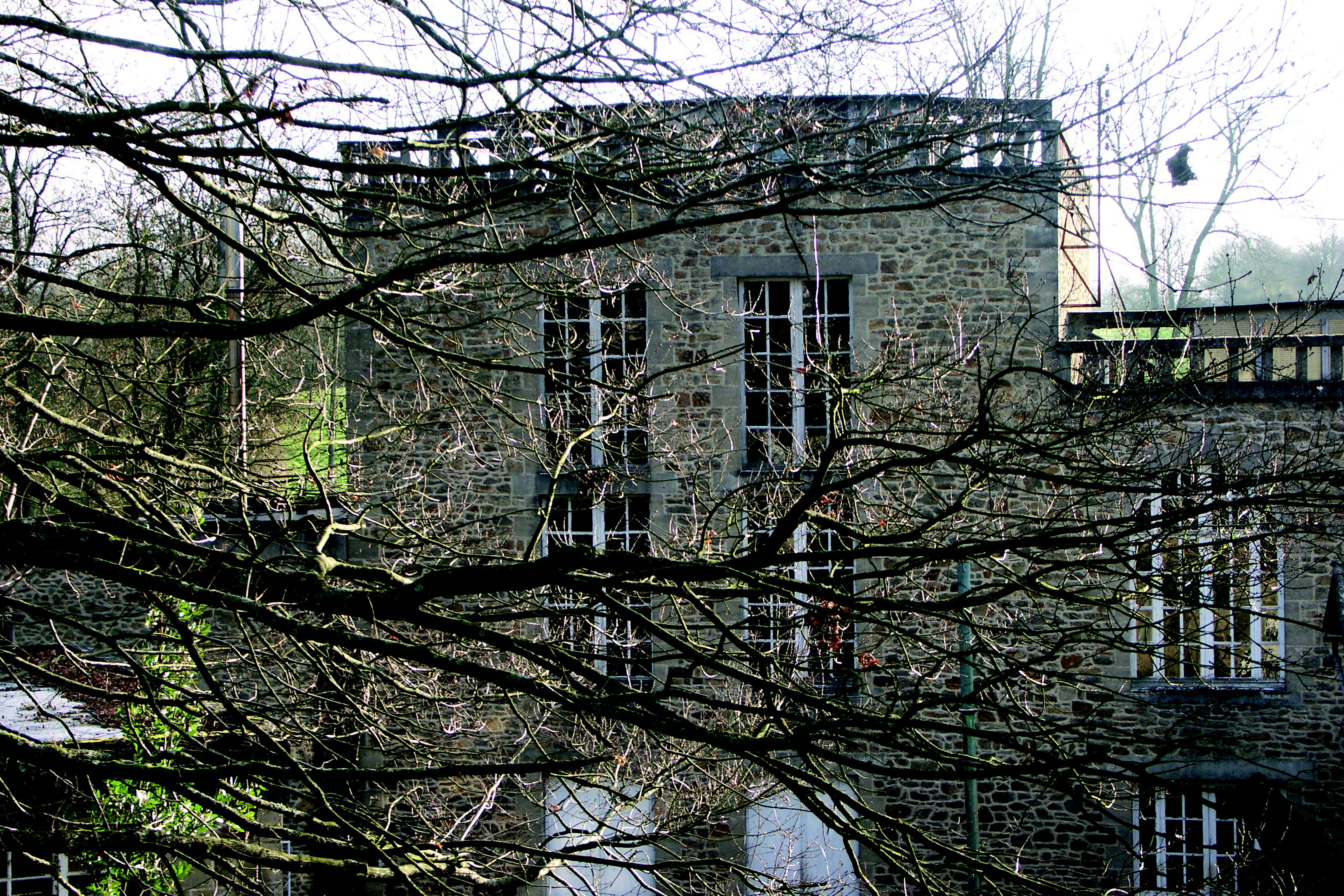 Anciennes chaudières de l'usine